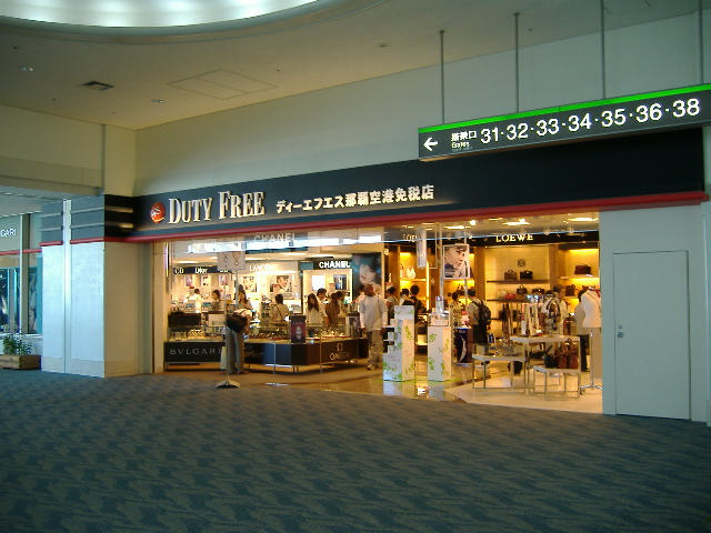 DFS-Okinawa in Naha Airport